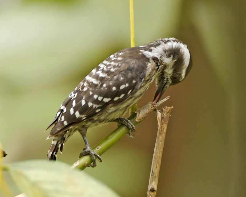 A male Sunda Woodpecker feeding.